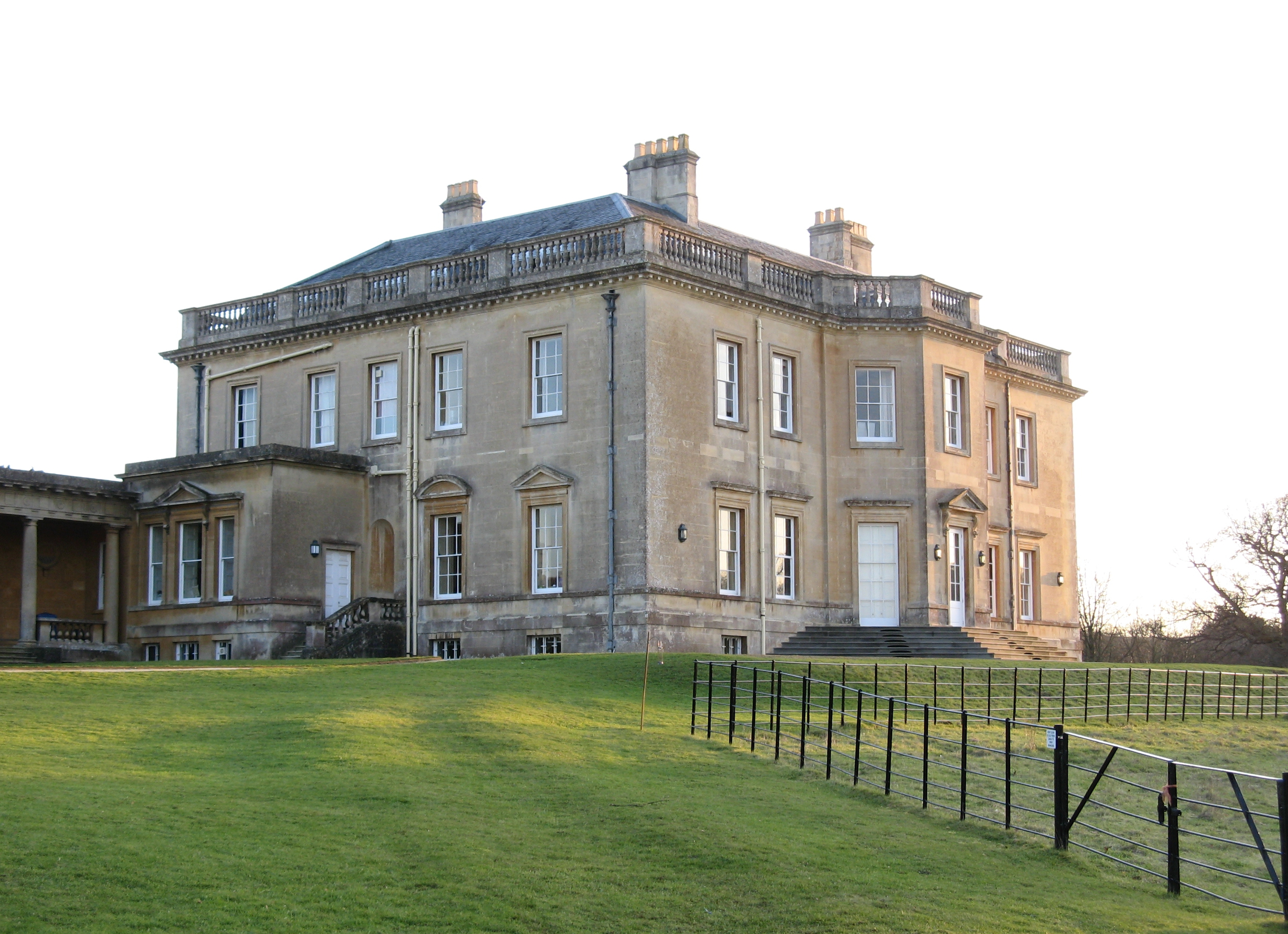 The north-west and north-east sides of Newton Park country house, facing toward the lake. Now part of the main Bath Spa University campus.